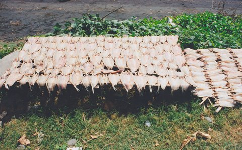 Drying fish in Indonesia